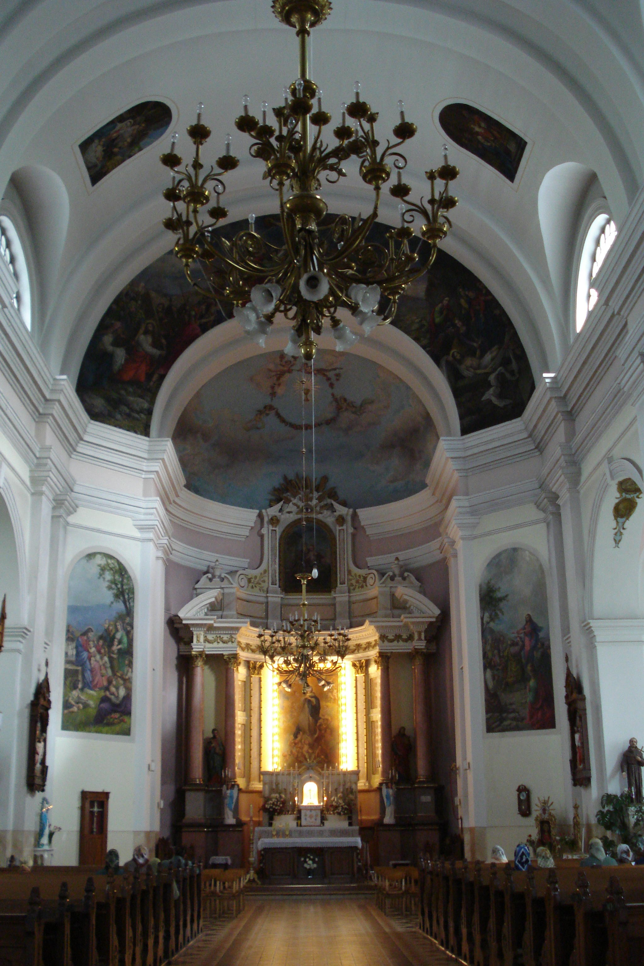 Daugavpils Immaculate Conception of the Blessed Virgin Mary Roman Catholic Church. Inside. Address: 11a A.Pumpura St.